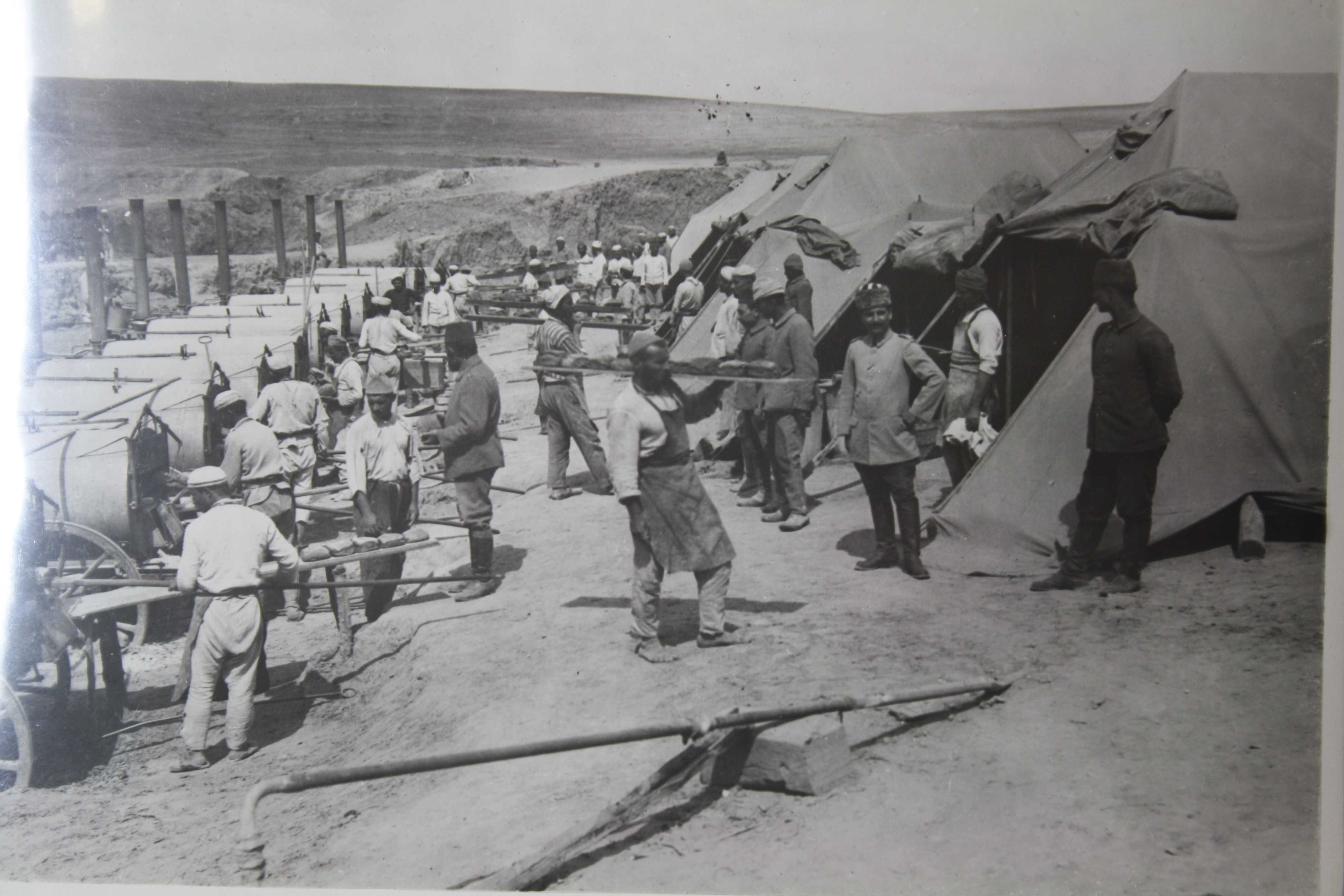 Bakery for WWI Ottoman soldiers